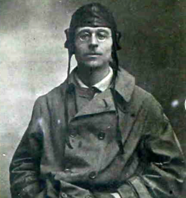 John Lawrence Hodgson when he obtained his Royal Aero Club Aviators certificate, 1917